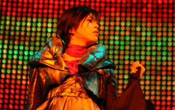 Utada Hikaru live in 2006